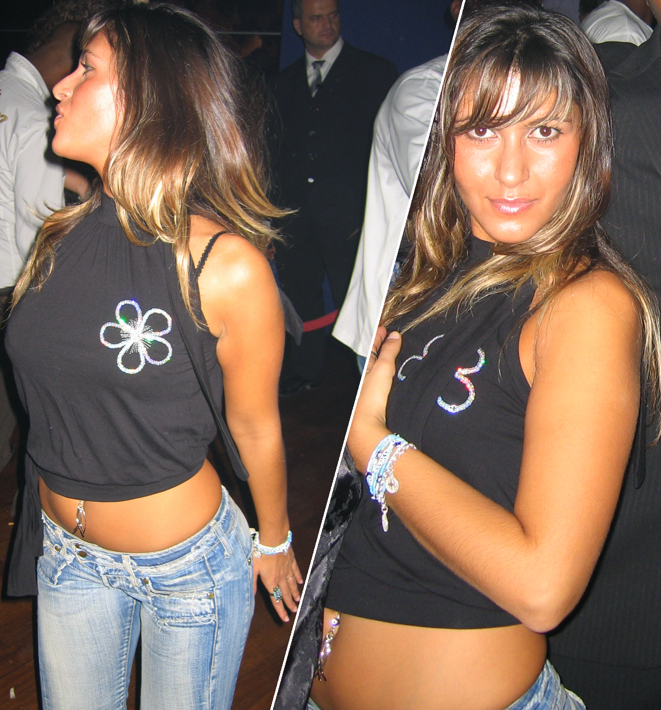 Woman with navel piercing.